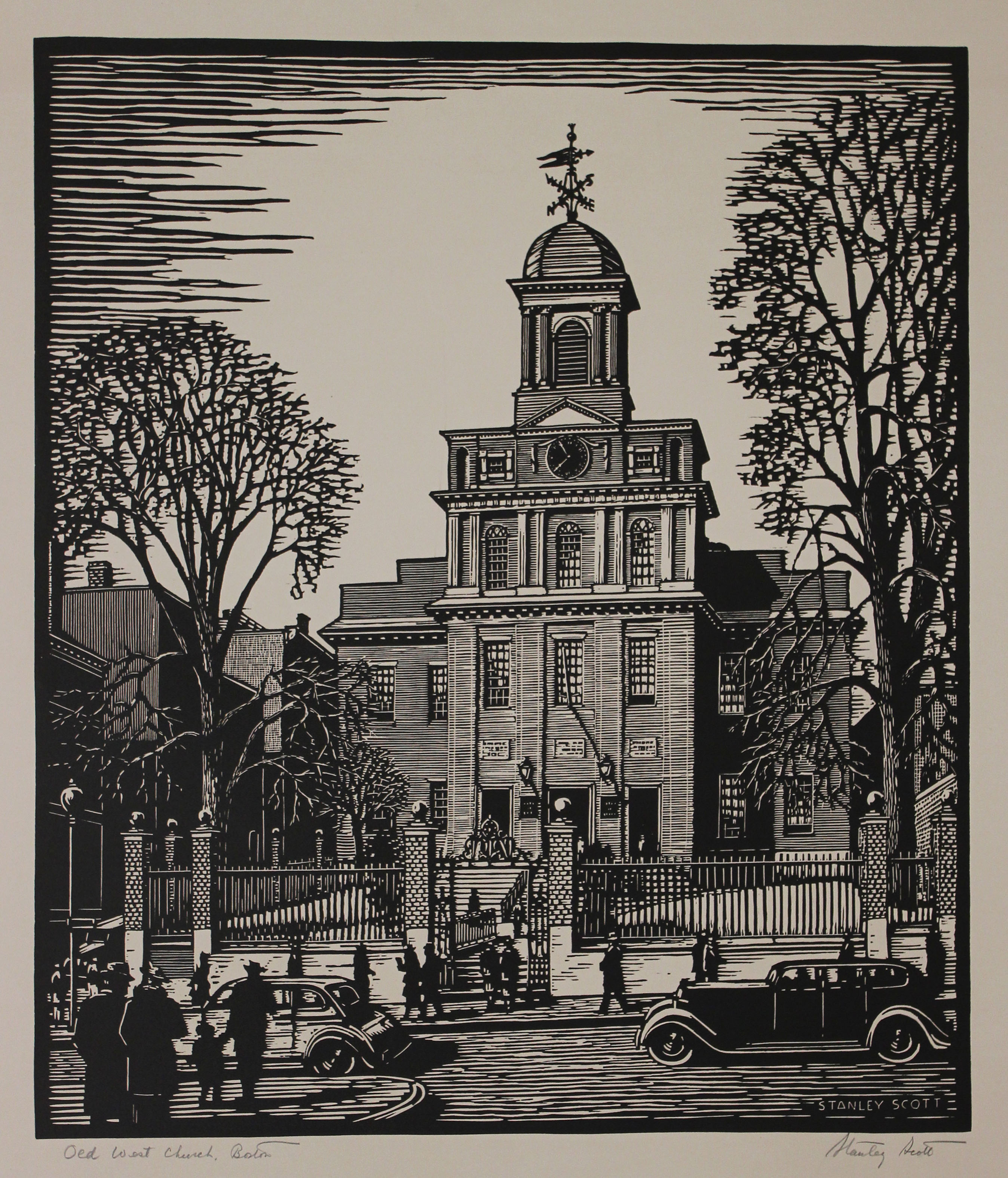 Old West Church in Boston, Massachusetts by Stanley Scott 1939